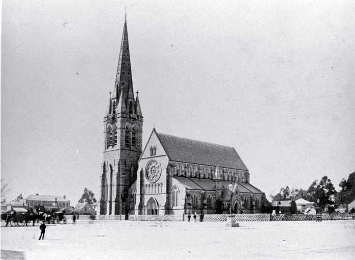 Christ Church Cathedral. New Zealand. Pre-1894, as the western porch that was built that year is not shown. 1882-1888 as the spire is intact but it was damaged in an 1888 earthquake. Hobbs' Building is on the left.